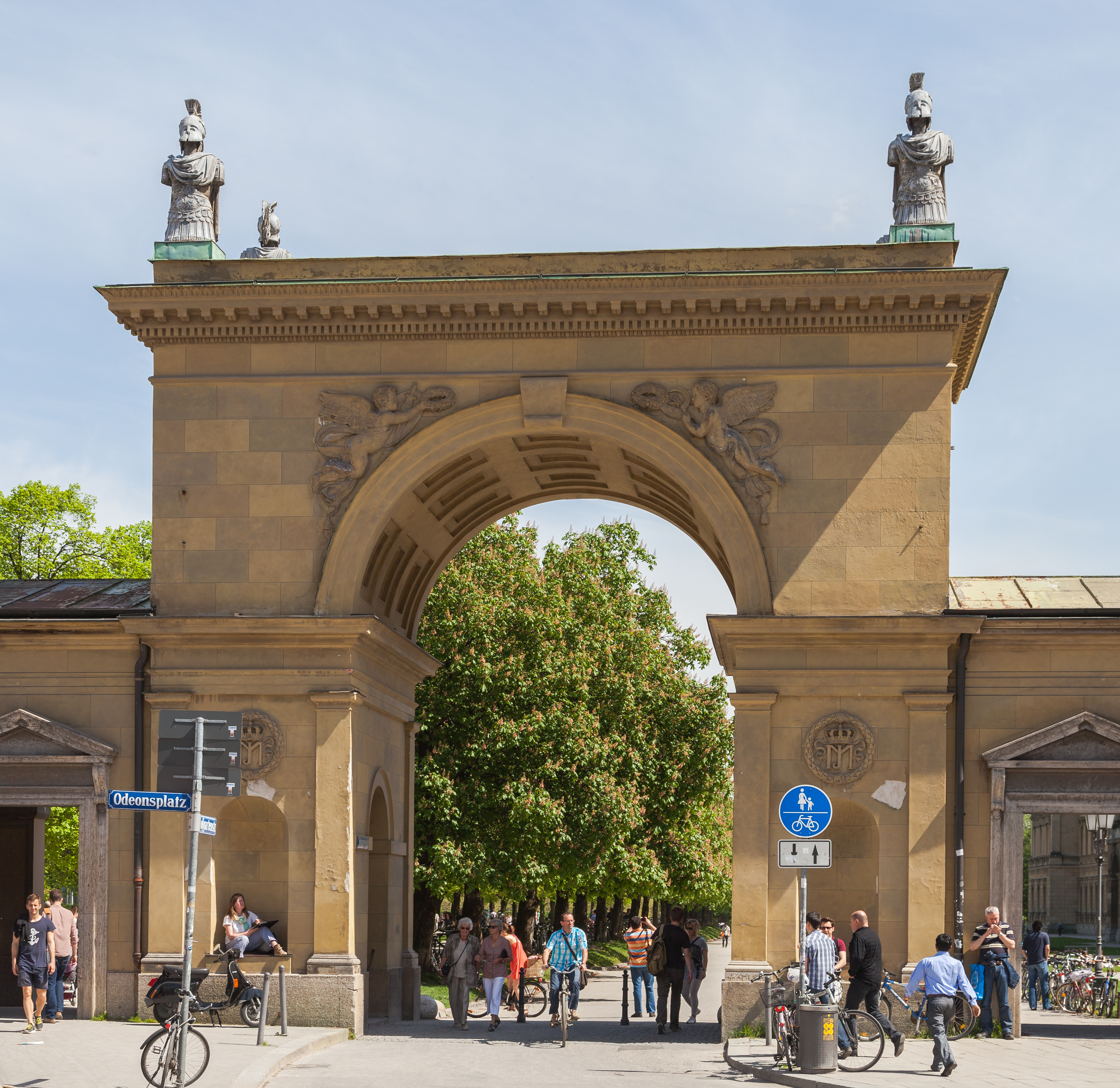 Gate to the Hofgarten, Munich, Germany